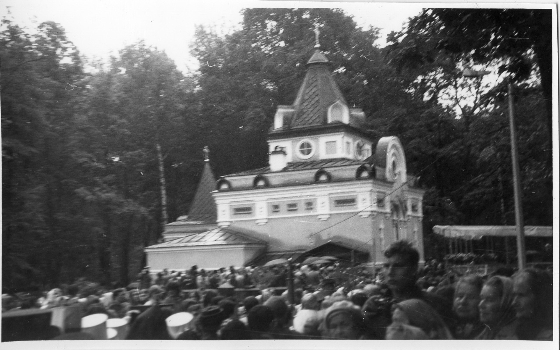 Chapel of Xenia of Saint Petersburg in the Orthodox Smolensky Cemetery in Leningrad (St. Petersburg), USSR, July, 1988. The celebration of the Millennium of the Baptism of Russia.